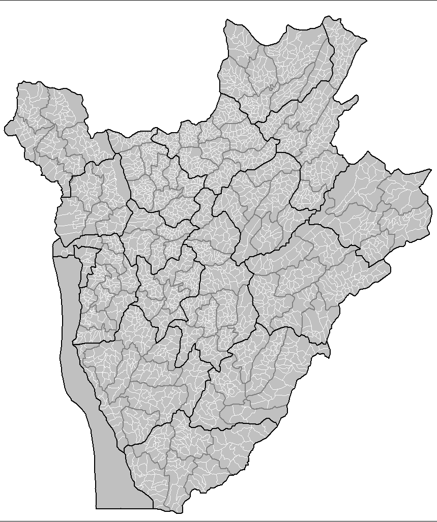 This map has been uploaded by Electionworld from to enable the Wikimedia Atlas of the World . Original uploader to was Rarelibra, known as Rarelibra at . Electionworld is not the creator of this map. Licensing information is below. Map of the collines of Burundi. Created by Rarelibra 13:53, 31 March 2006 (UTC) for public domain use. Created using MapInfo Professional v7.5 and various mapping resources.